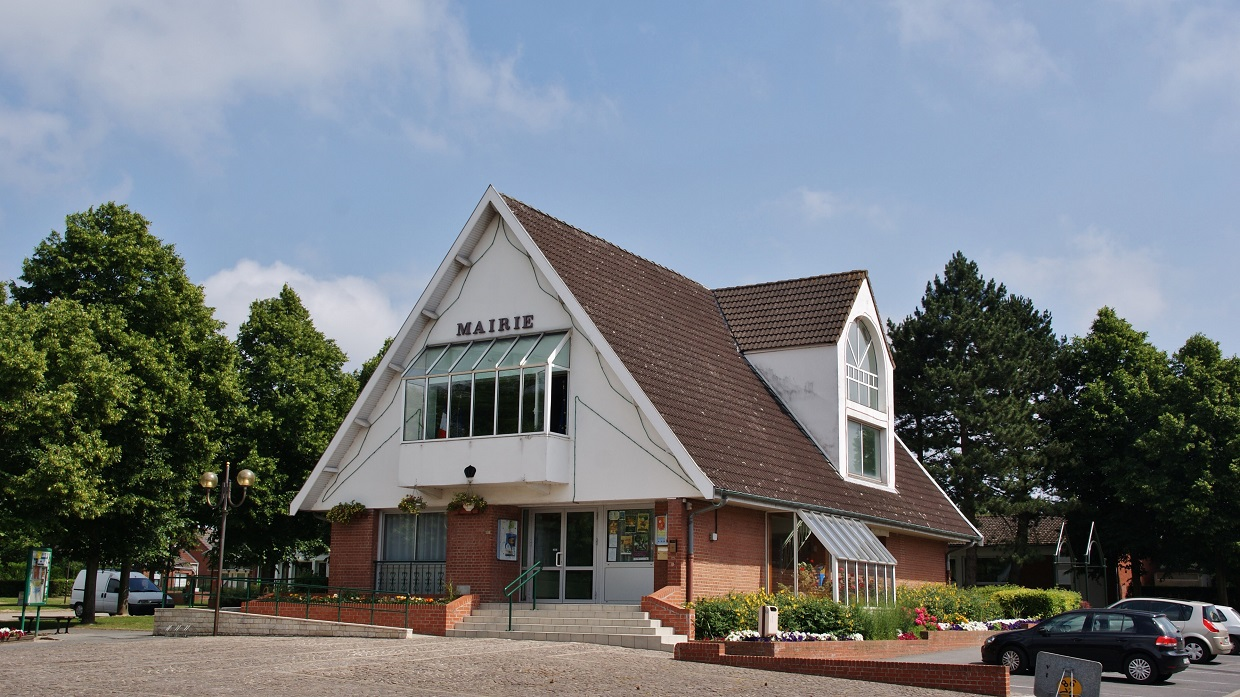 La Mairie